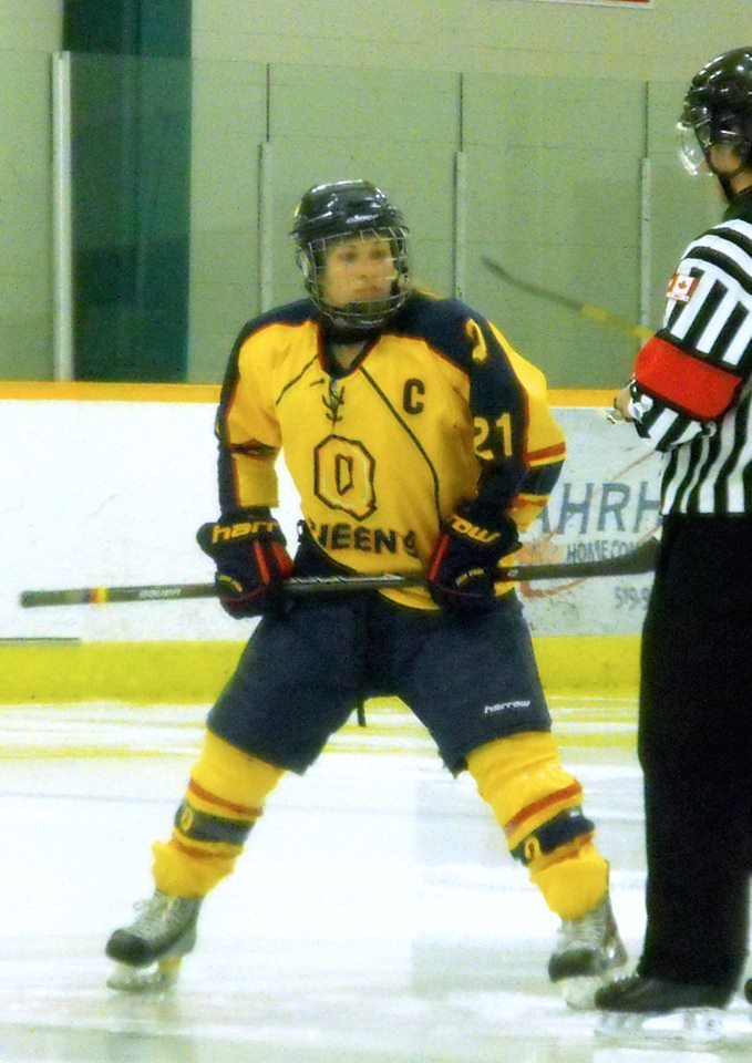 This photo was taken by Devan Mighton during the 2013-14 CIS women's season.